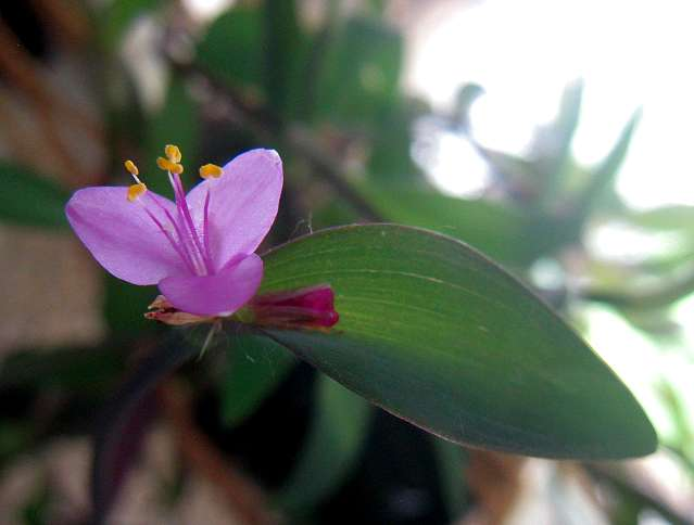 Tradescantia pallida flower